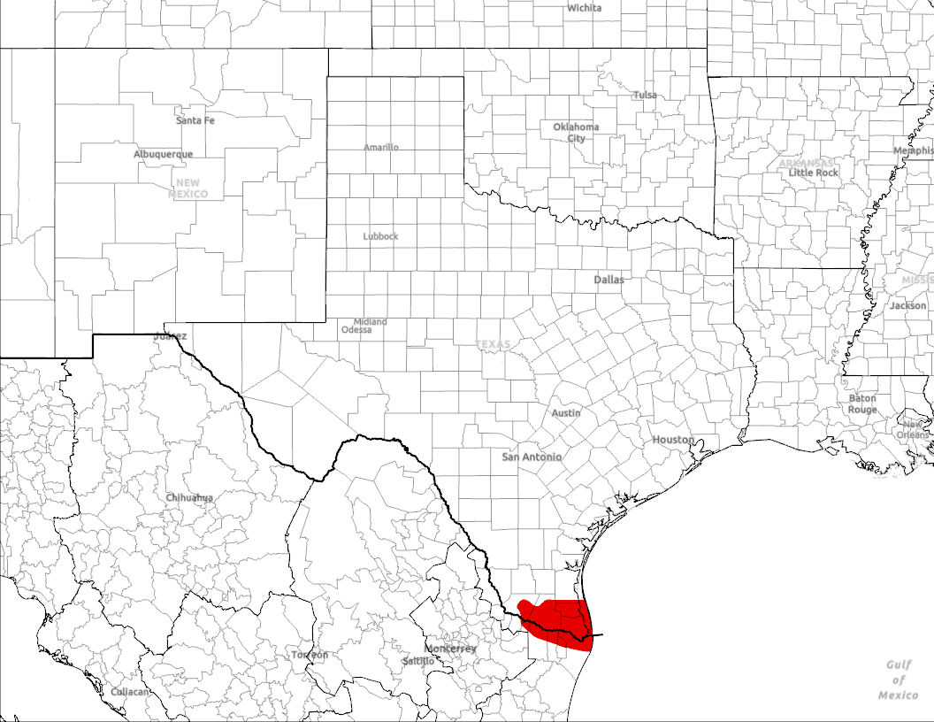 This is a map showing the states and counties of Mexico and the United States with the red portion showing the Rio Grande Valley.